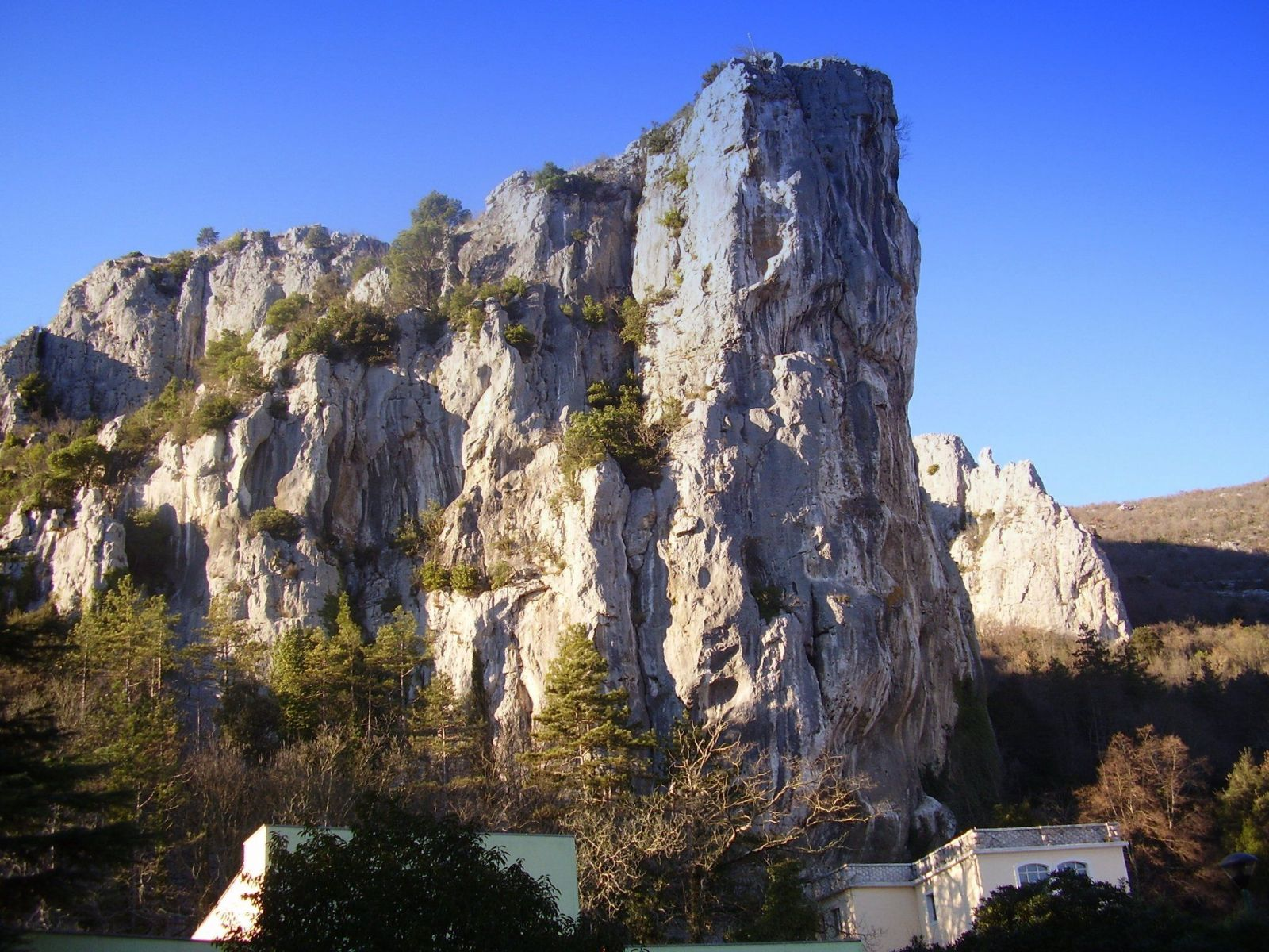 Monument of the place, the rock above the spa.